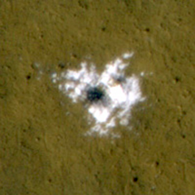 Water ice excavated by an impact crater that formed between January and September 2008. The ice was identified spectroscopically using CRISM. Image acquired by the HiRISE camera. Location is 55.57°N, 150.60°E.